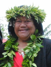 The High Commissioner of Niue to New Zealand, Hon O'Love Jacobson, after a ceremony at Atupare Marae, Cook Islands, to welcome the New Zealand governor-general, Sir Jerry Mateparae, on 21 October 2013.